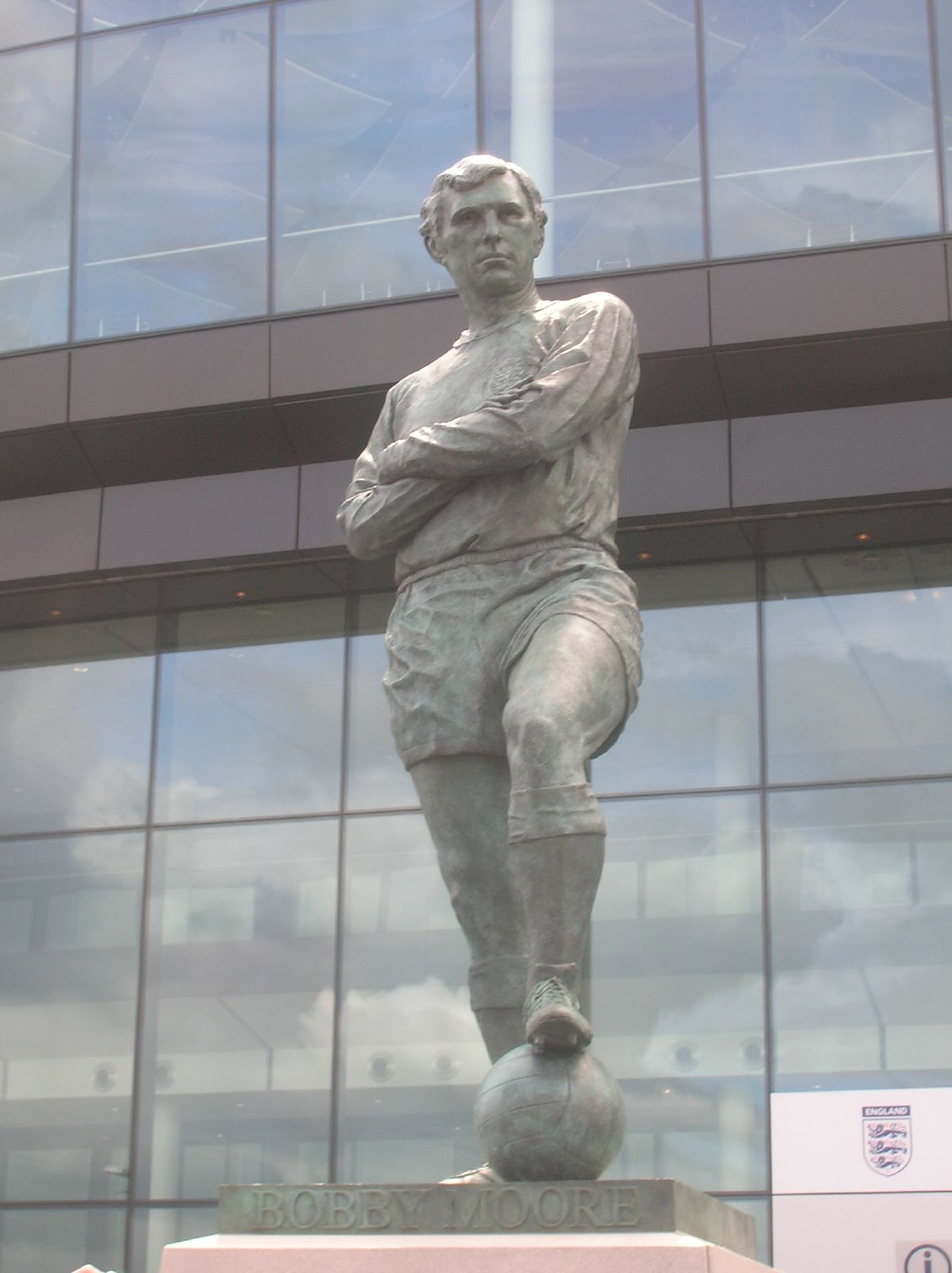 Statue of Sir Bobby Moore